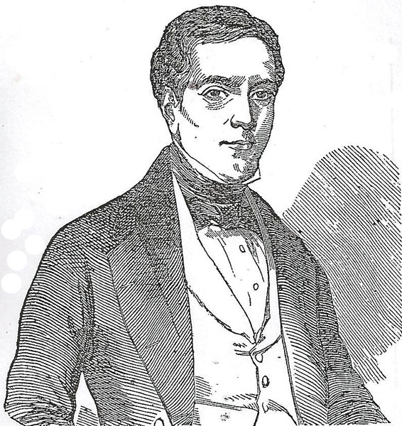 Jereboam O. Beauchamp Taken from The life of Jeroboam O. Beauchamp : who was hung at Frankfort, Kentucky, for the murder of Col. Solomon P. Sharp (1850), p. 2 published by D'Unger & Co. (Frankfort, Kentucky)